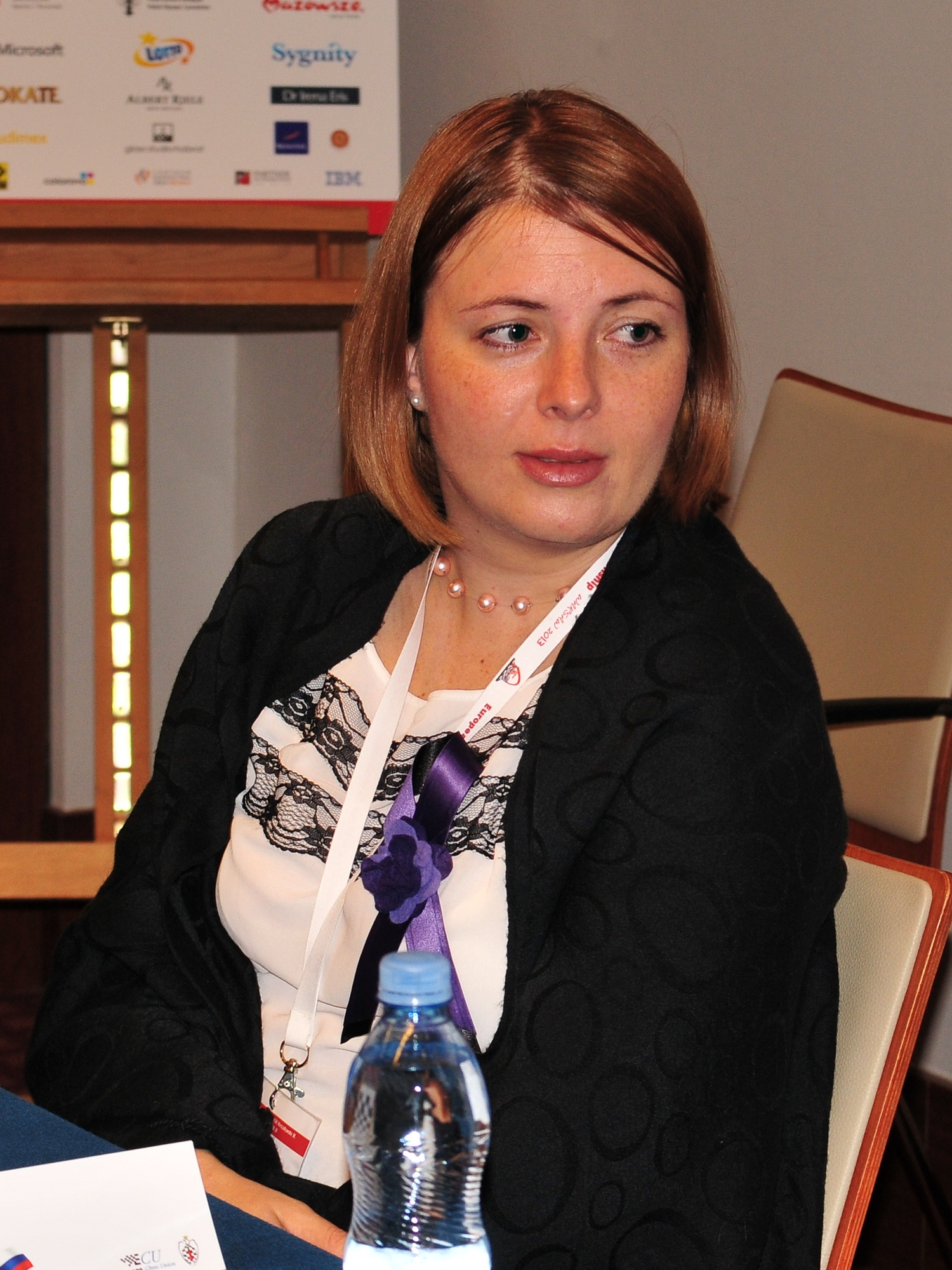 WGM Darja Kapš, European Chess Team Championship Warsaw 2013